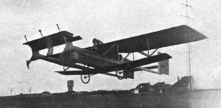 Budig motorglider flying